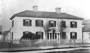 'Bellevue' original Denison estate on Denison Square, Toronto